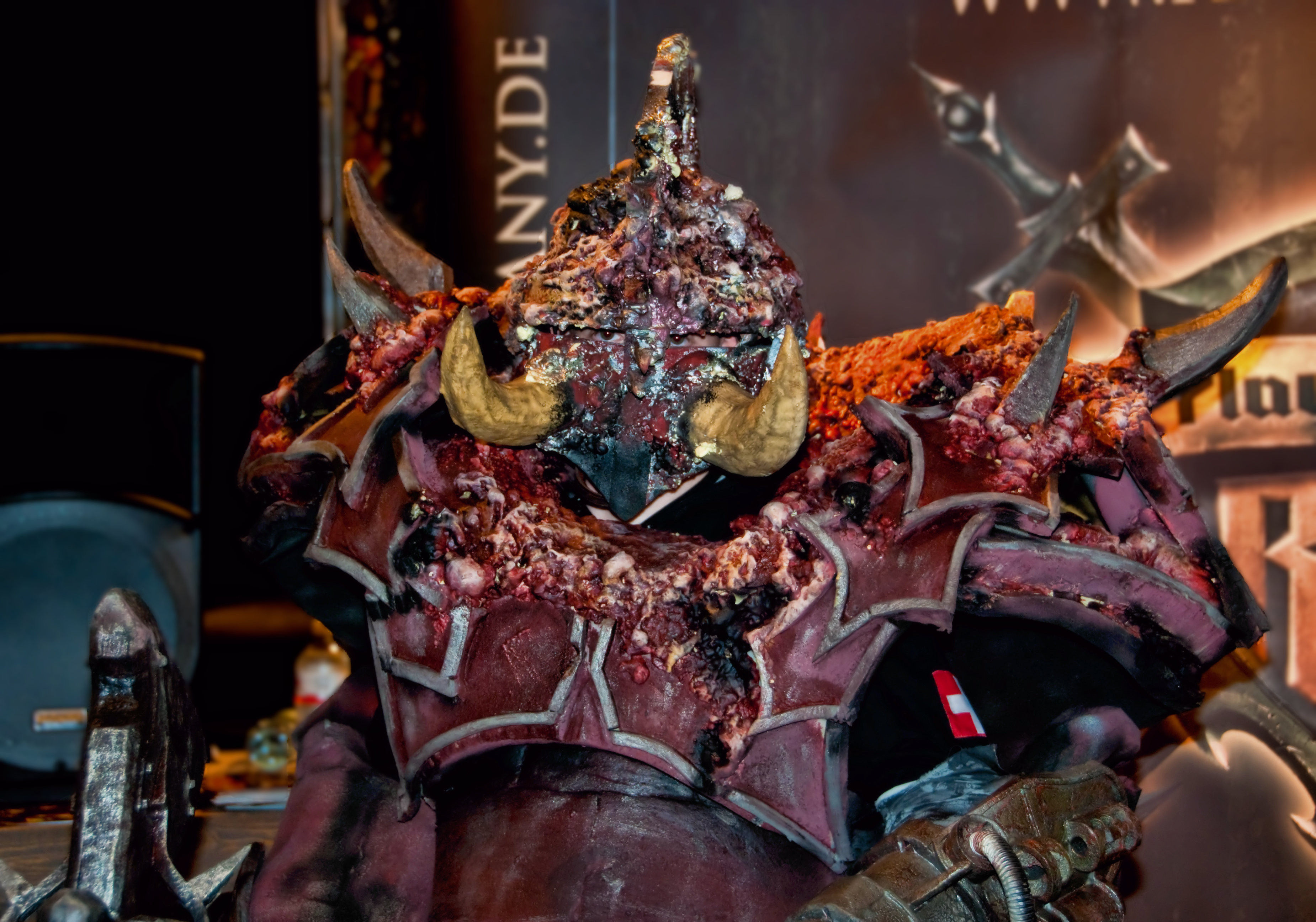 Chaos Marine at GamesCom